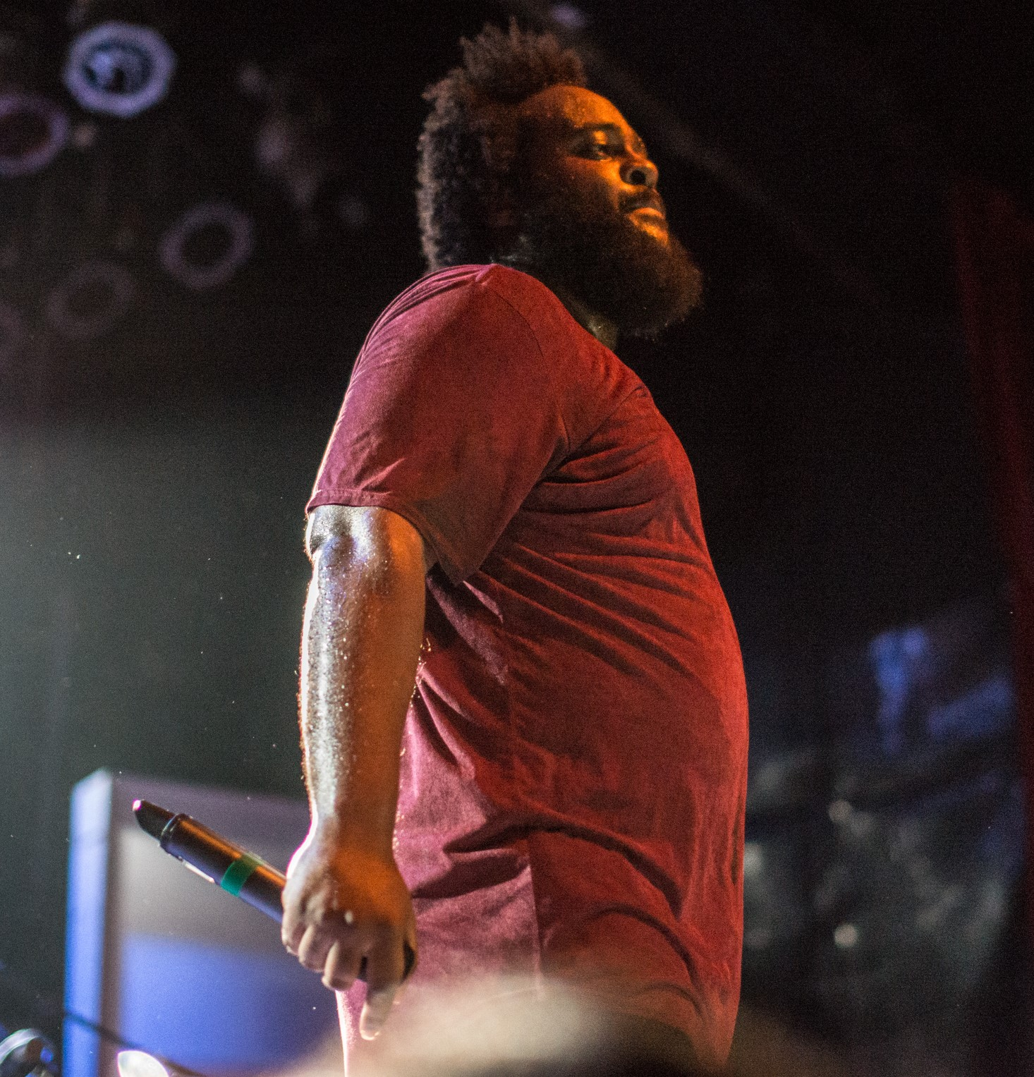 Bas performs at The Mod Club in Toronto during Too High To Riot Tour.